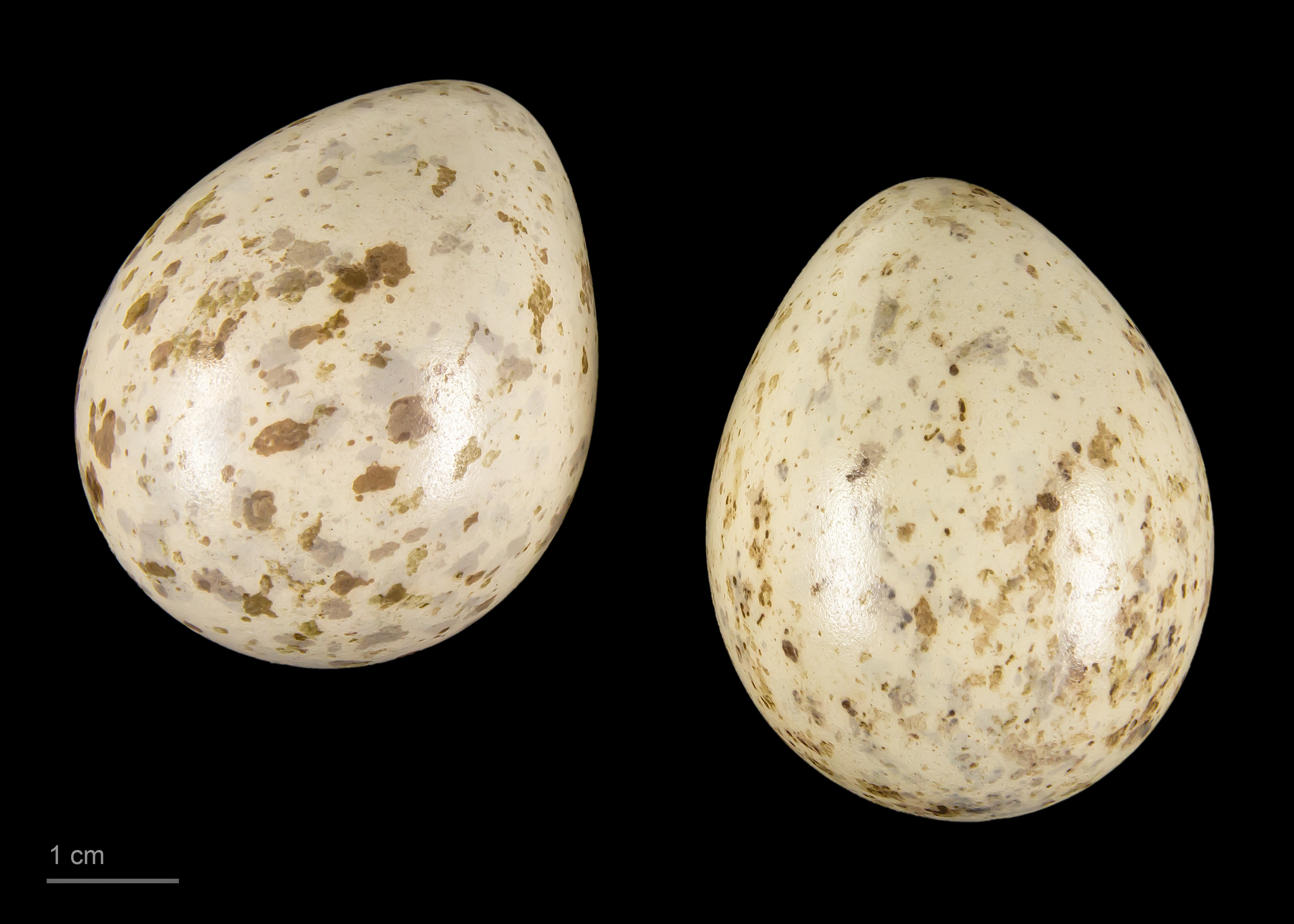 Eggs of Eurasian woodcock Two specimens of the same spawn ; collection of Jacques Perrin de Brichambaut.